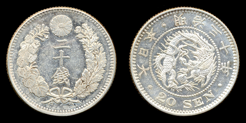 20sen-M30